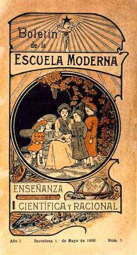 The Boletín de la Escuela Moderna of December 31, 1905. It first appeared in October 1901 and was edited by Francisco Ferrer.